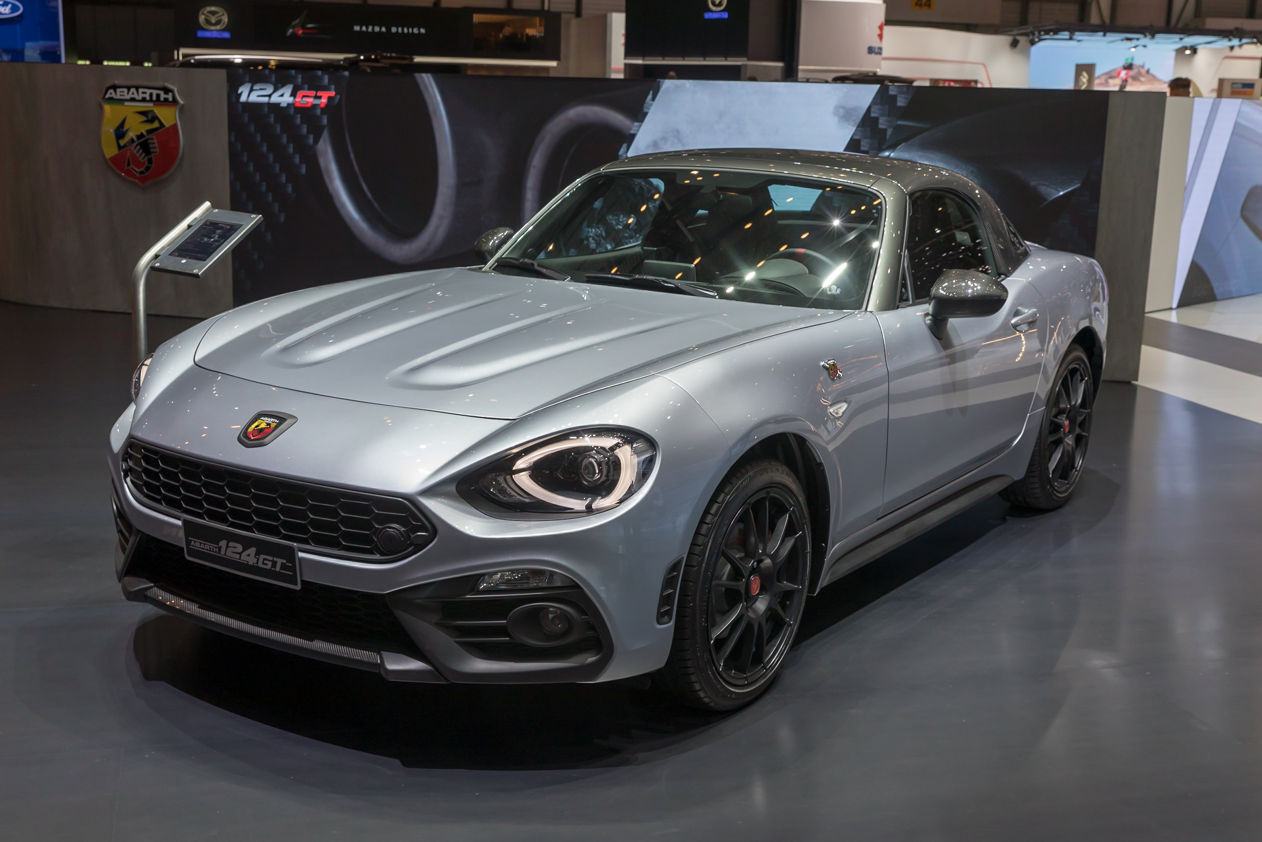 Geneva International Motor Show 2018